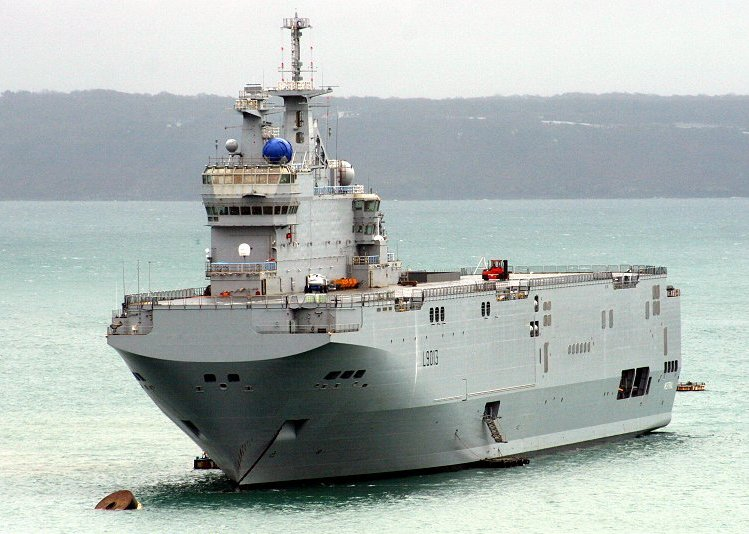 Projection and Command vessel Mistral in Brest Harbour (12th of February 2005)